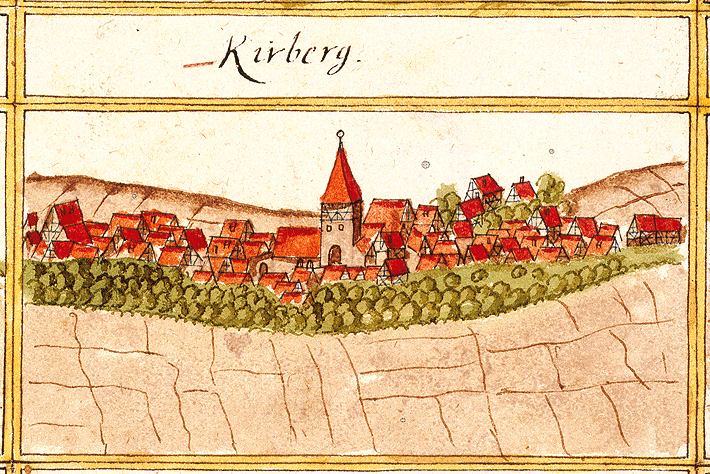 View of Kirchberg an der Murr from the forest register books created by Andreas Kieser